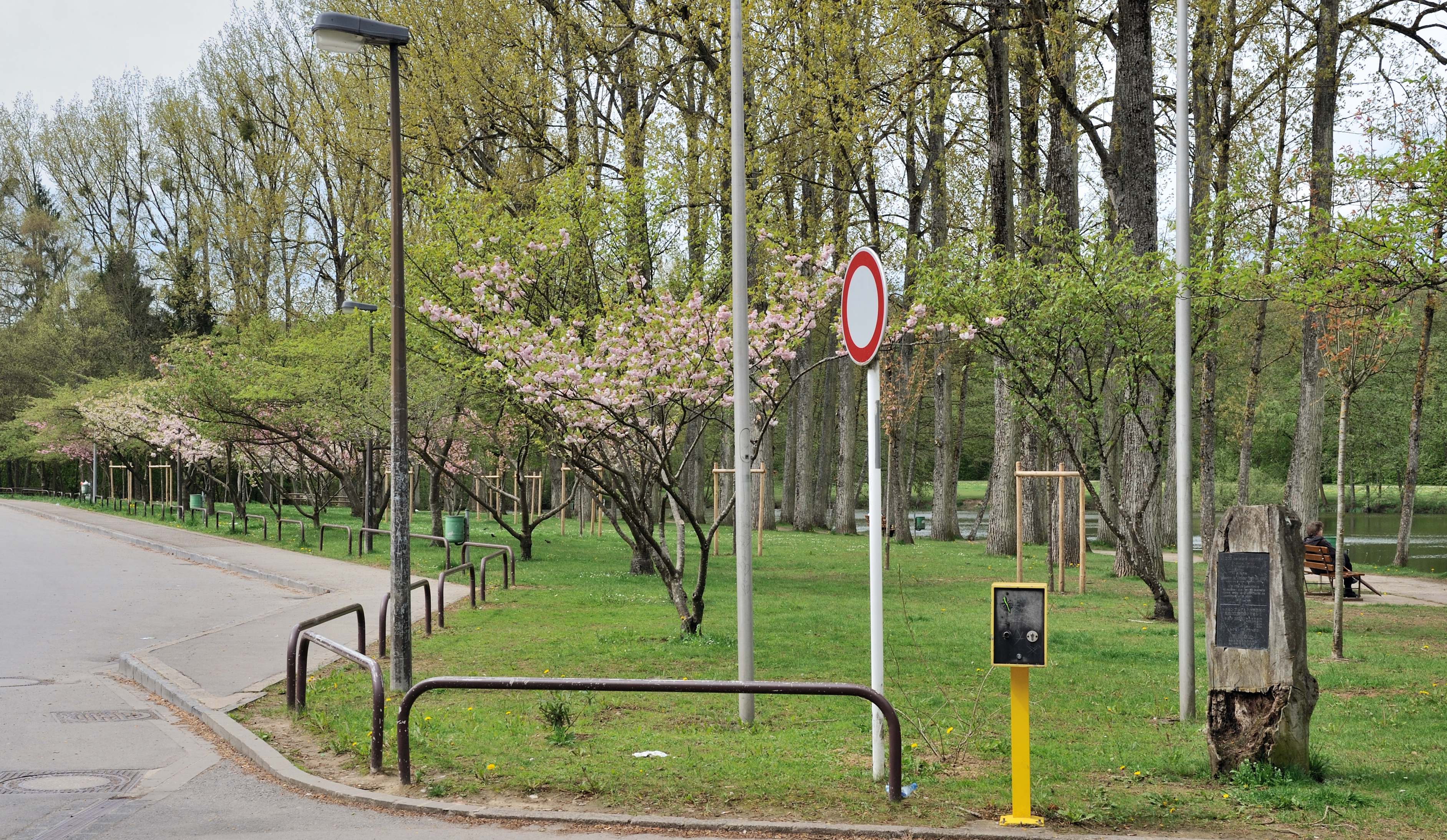 Luxembourg City, Kockelscheuer: Japanese cherry trees donated by Yoshiyuki Urata to the City of Luxembourg in 1981. Right foreground: trunk with the bronze plaque informing about the gift in both French and Japanese.